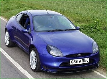 Wonderful. Wish I still had it.